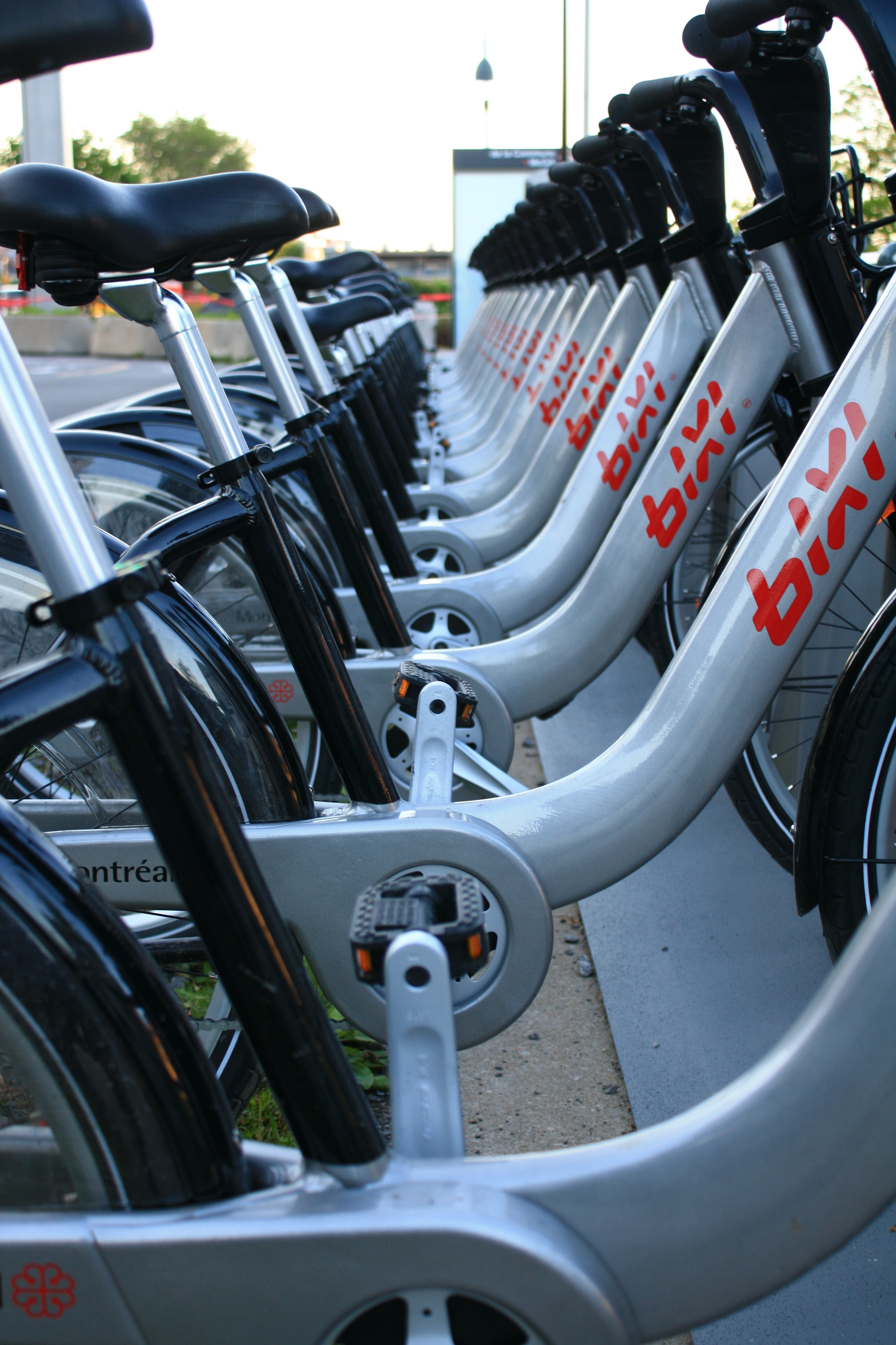 A Bixi rental bicycle stand in Old Montreal.